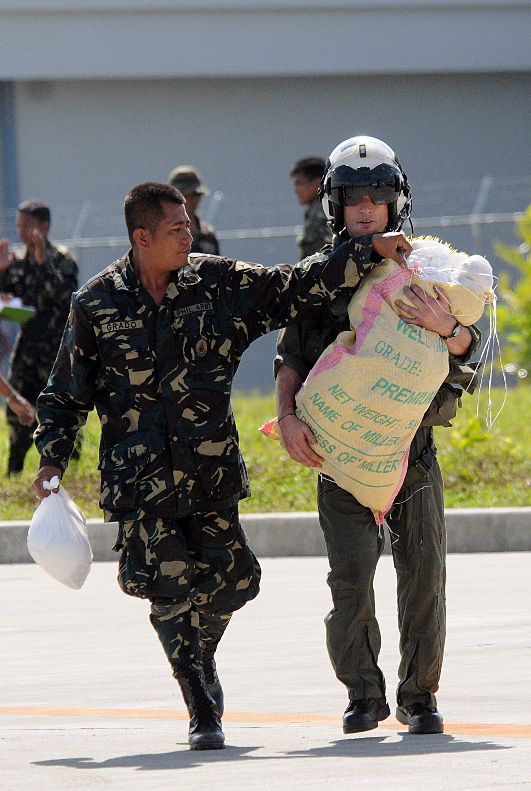 ILOILO, Philippines (June 30, 2008) Lt. Brandon Sheets, right, carries a 100-pound sack of rice while a soldier from the Armed Forces of the Philippines lends a hand trying to keep the bag closed. The rice will be delivered to the remote location of Binglusan on the island of Panay. Sheets, a native of Abilene, Texas, is a helicopter pilot with the "Black Knights" of Helicopter Anti-Submarine Squadron (HS) 4 embarked aboard the aircraft carrier USS Ronald Reagan (CVN 76) and has been flying relief missions to remote areas on the island delivering food and water. U.S. Navy photo by Senior Chief Mass Communication Specialist Spike Call (Released)